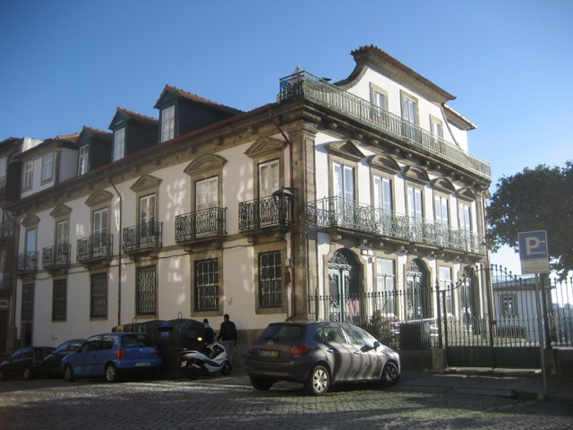 Old English Club, Porto - Portugal